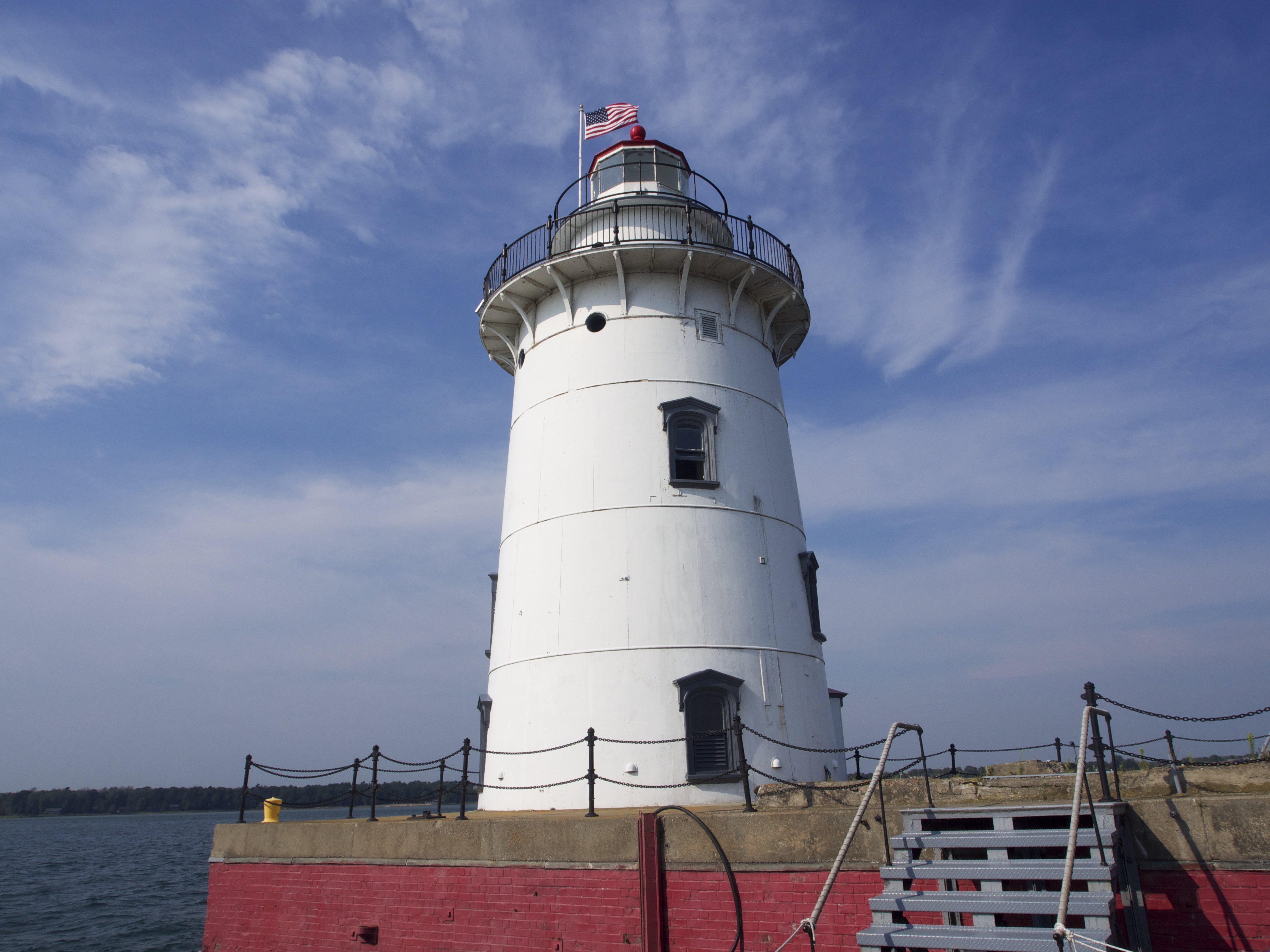 The Harbor Beach Lighthouse at Harbor Beach, Michigan, United States is listed on the US National Register of Historic Places with reference number 83000850.